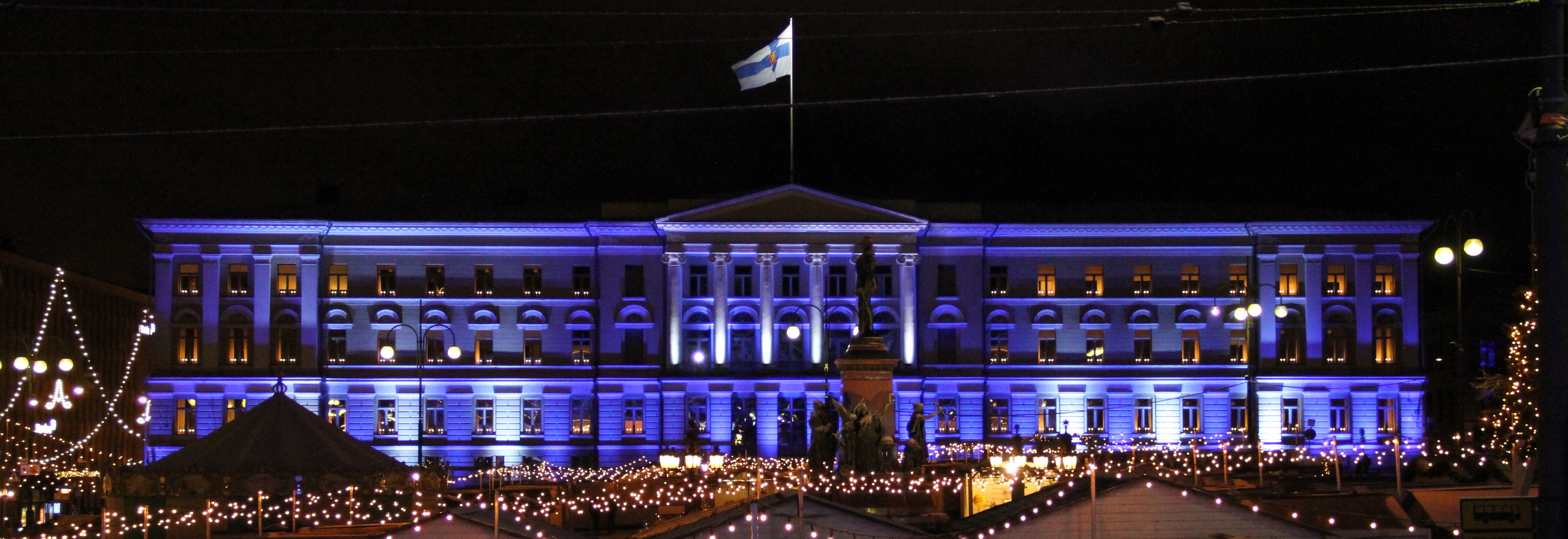 University of Helsinki main building in Helsinki, Finland, illuminated blue and white to celebrate centenary of Finland’s independence in 2017.